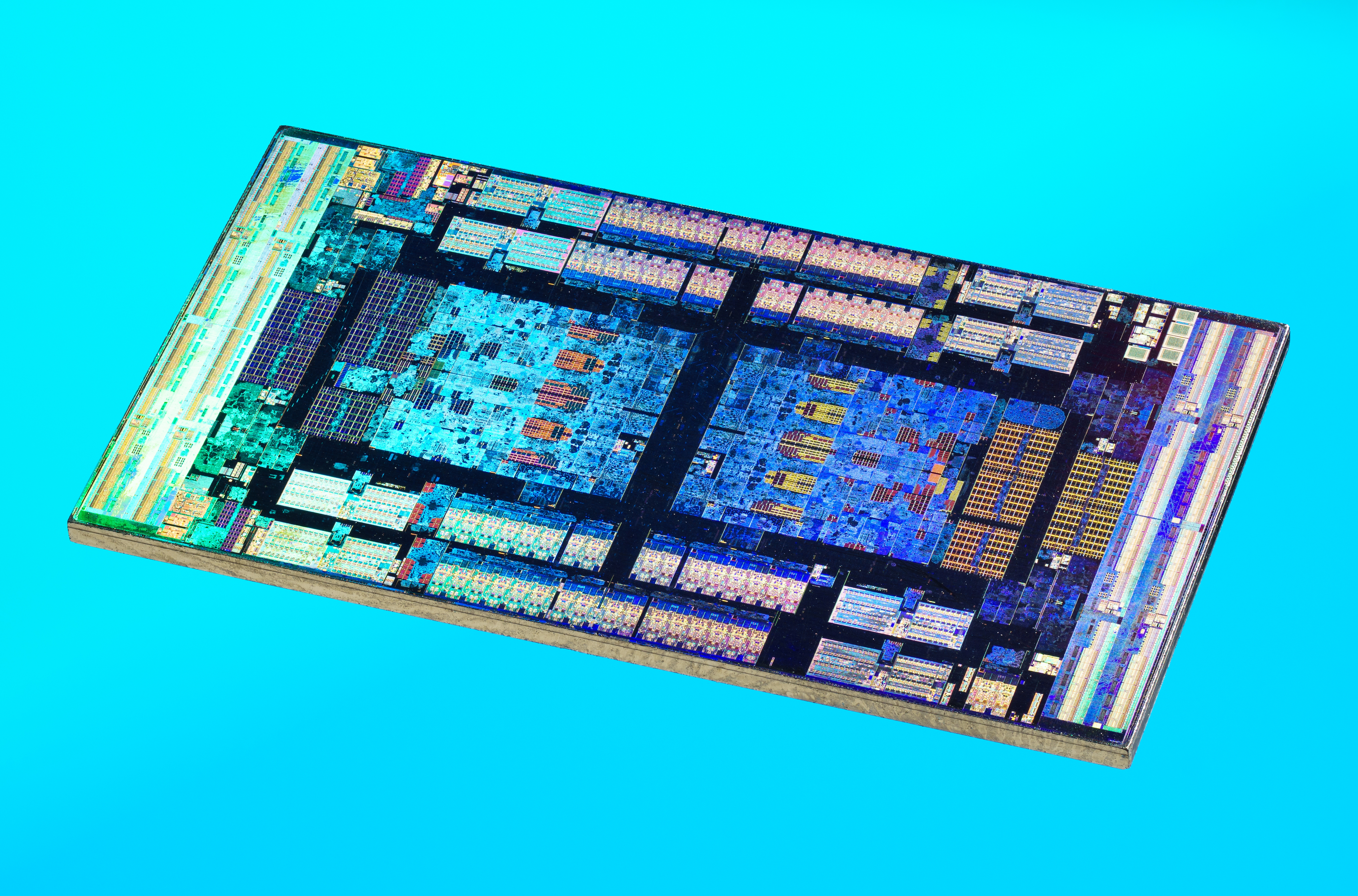 Die shot of the IO die of an AMD Epyc 7702 engineering sample.